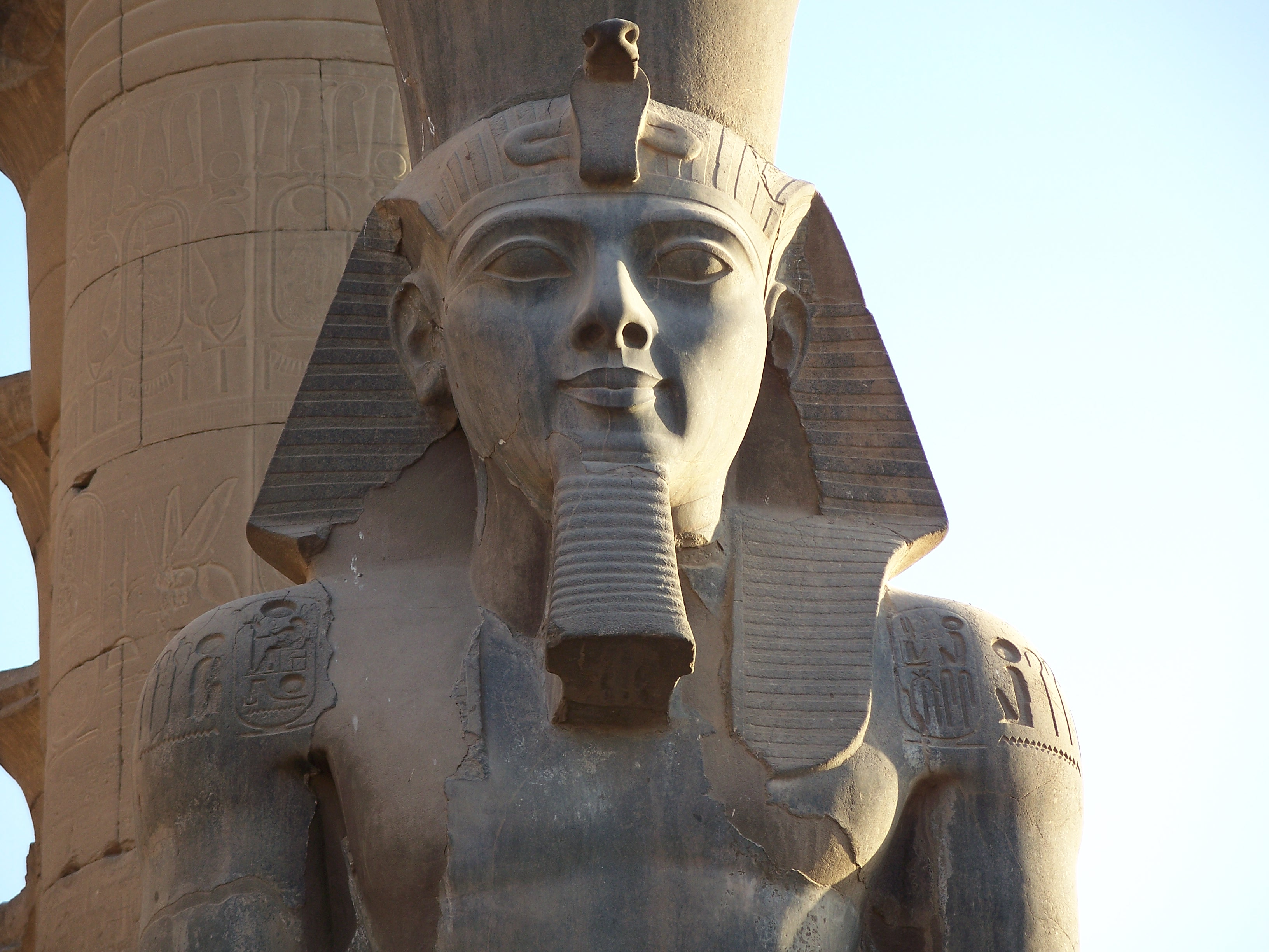 A Closeup of a Ramesses II Colossus in Luxor Temple. Taken by myself. May 26, 2007